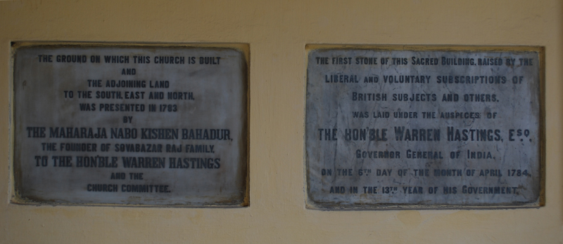 Foundation Plaques, St. John's Church, Kolkata